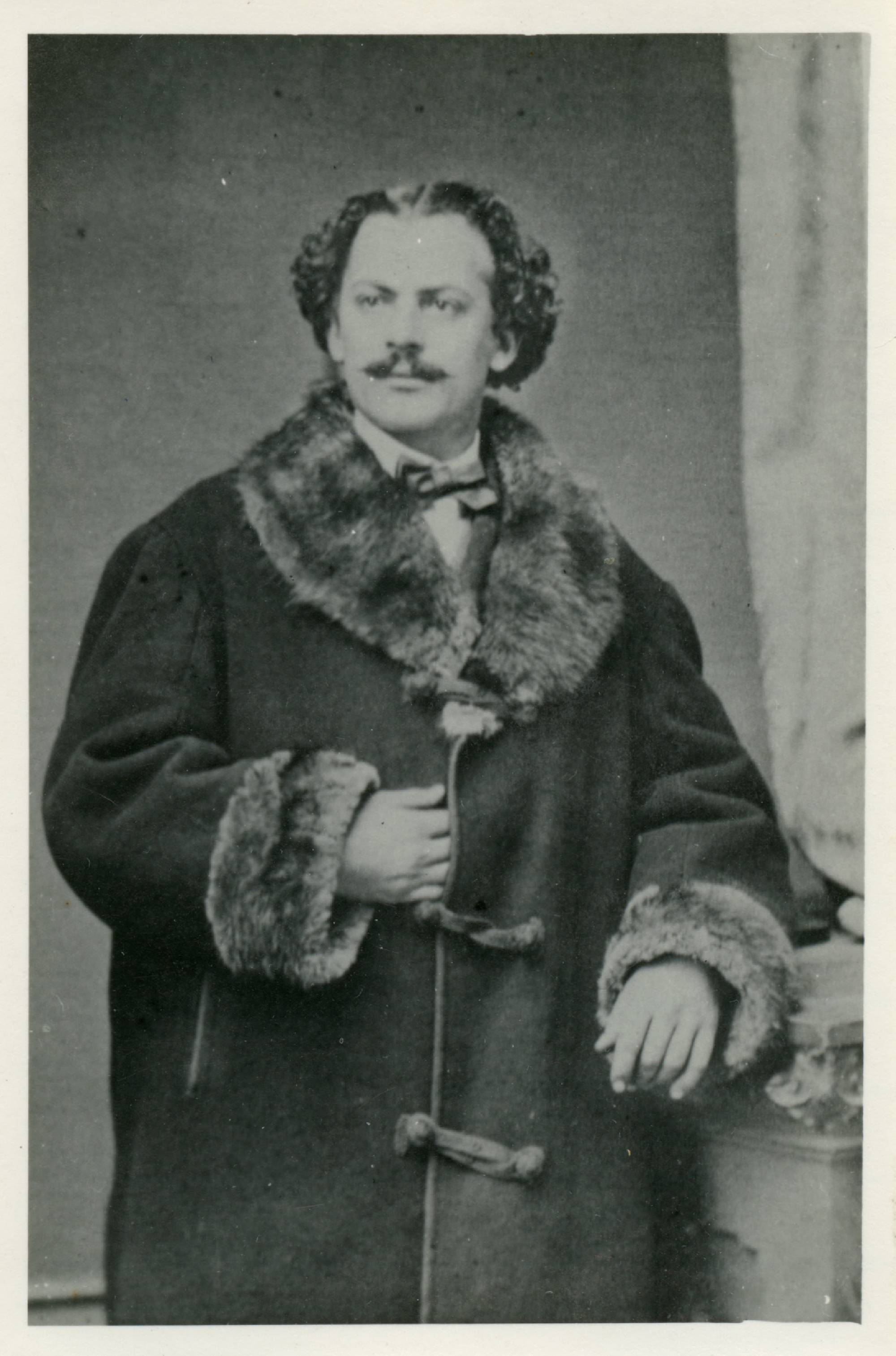 Dimitrije Kolarović, Serbian actor (1839-1899)